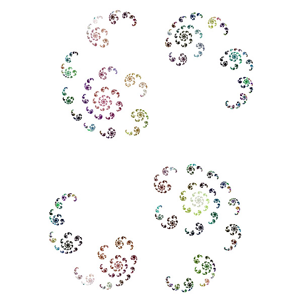 Julia set for c near c = 0.383108171409427-0.074999999999999*i. Made with IIM